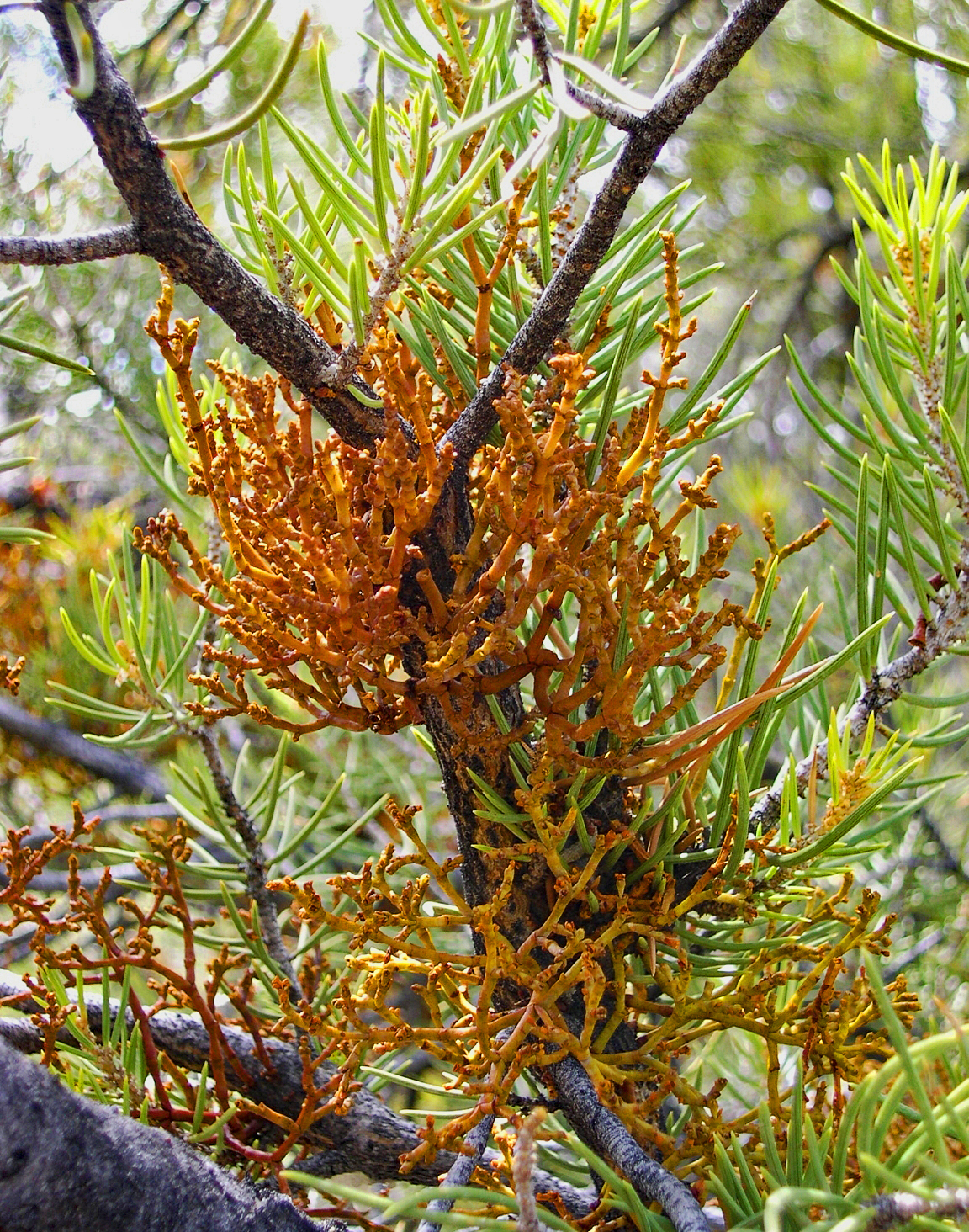 Arceuthobium divaricatum (pinyon dwarf mistletoe) on its host Pinus monophylla